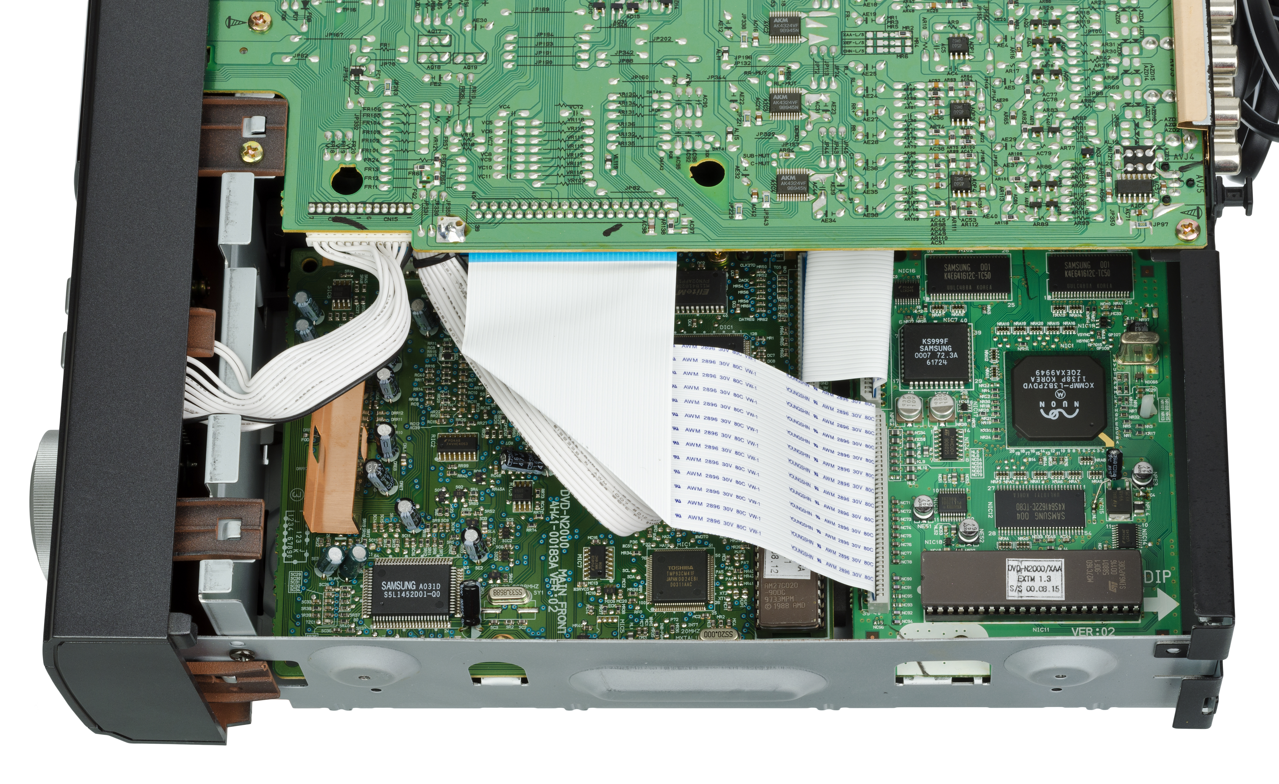 The interior of the Samsung N2000 DVD player, a hybrid gaming system/DVD player that was released in 2000. The N2000 features the Nuon chipset, which made it capable of playing 3D games and offering enhanced DVD playback with select movies. The Nuon line of gaming systems/DVD players came in a few models from different manufacturers, but the N2000 was the first to the market and also came bundled with a controller. Very few games were released for the platform, until the Nuon chipset was phased out a few years later. This picture shows the chipset used for the Nuon functionality. Most of the rest of the innards are used for DVD playback.